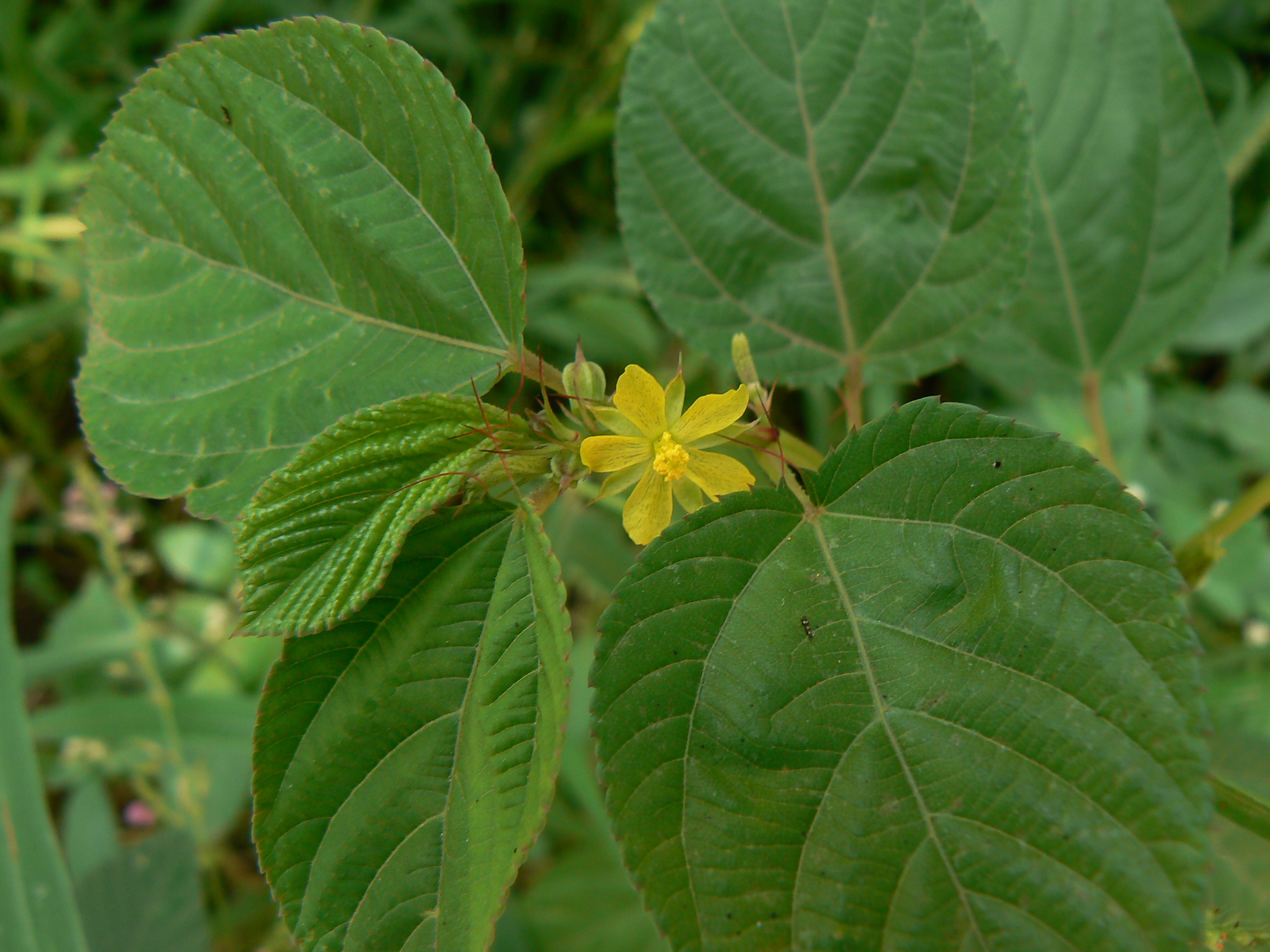 Tiliaceae (phalsa family) » Corchorus olitorius KOR-koh-rus -- derivation is obscure oli-TOR-ee-us -- from Latin (h)olitorius commonly known as: bristly-leaved Jew's mallow, nalta jute, tossa jute • Assamese: মৰা শাক mara shaak, তিতা মৰা tita mara • Bengali: মিঠা পাট meetha pat • Gujarati: છુઙ્છો chhunchho, ચુઙ્ચિયો chunchio • Hindi: मिठा पाट mitha paat, पाट paat, पाट साग pat-sag, पटसन patsan, पट्ट patta, तोश पाट tosha paat • Kannada: ಚುಂಚಳಿ ಗಿಡ chunchali gida • Konkani: बनपट banpat • Manipuri: limon • Marathi: मोठी चुंच mothi chunch • Nepalese: पाट् pat • Oriya: kaunria • Sanskrit: महाचञ्चु mahachanchu, पट्टशाकः pattashaakah • Tamil: காட்டுத்துத்தி kattuttuti, பெரும்பிண்ணாக்குக்கீரை perumpinnakkukkirai • Telugu: పేరంటాలికూర perantalikura Native of: India, Pakistan, perhaps native elsewhere in tropical Asia; naturalized in tropics References: Flowers of India • eFlora • NPGS / GRIN • PIER • ENVIS - FRLHT • DDSA